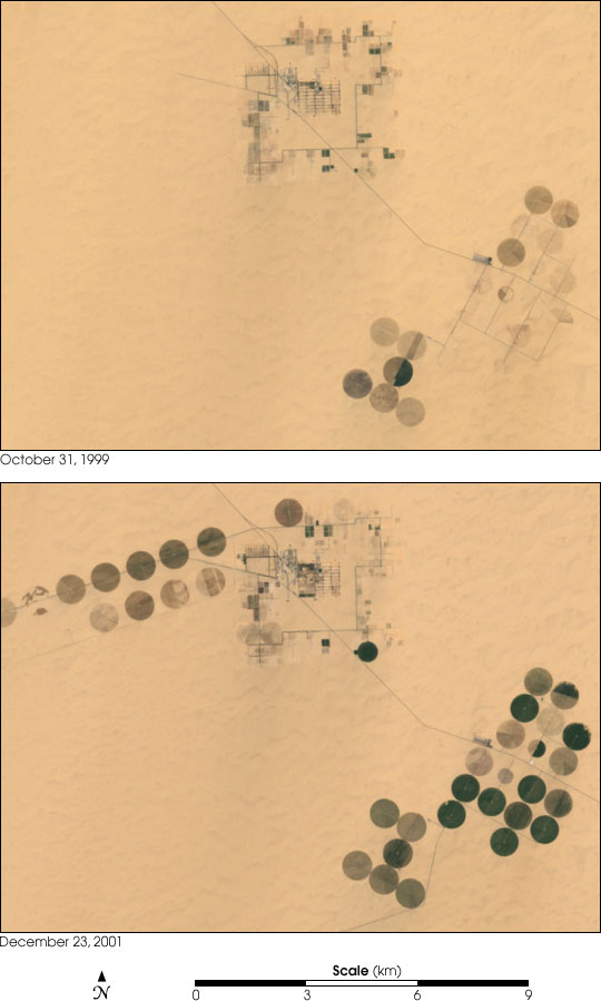 Irrigation in the Heart of the Sahara (Egypt) Although it is now the largest desert on Earth, during the last ice age the Sahara was a savannah with a climate similar to that of present-day Kenya and Tanzania. The annual rainfall was much greater than it is now, creating many rivers and lakes that are now hidden under shifting sands or exposed as barren salt flats. Over several hundred thousand years the rains also filled a series of vast underground aquifers. Modern African nations are now mining this fossil water to support irrigated farming projects. The above pair of images shows a small settlement just north of the border between Egypt and Sudan. The dark circles—each about a kilometer across—indicate central-pivot irrigation. A well drilled in the center of each circle supplies water to a rotating series of sprinklers. Rainfall in this area of the Sahara is only a few centimeters a year, so the aquifers will take thousands of years (or longer) to recharge, making the water a non-renewable resource. Although no one knows how much water is beneath the Sahara, hydrologists estimate that it will only be economical to pump water for fifty years or so. On the other hand, alternative technologies for providing fresh water in this arid region—primarily desalinization—are too expensive for widespread use. Sudan, Libya, Chad, Tunisia, Morocco and Algeria are some of the other Saharan nations irrigating with fossil water, but the practice is not limited to Africa. In the southern plains of the United States, the Ogallala aquifer is being drained faster than it can be replenished. These true-color images were acquired by the Enhanced Thematic Mapper plus (ETM+) aboard NASA’s Landsat 7 satellite. The Landsat satellites enable scientists to monitor land use and land cover change dating back to 1972. Landsat 7 is designed to last until at least 2004, and follow-on missions are currently being planned.